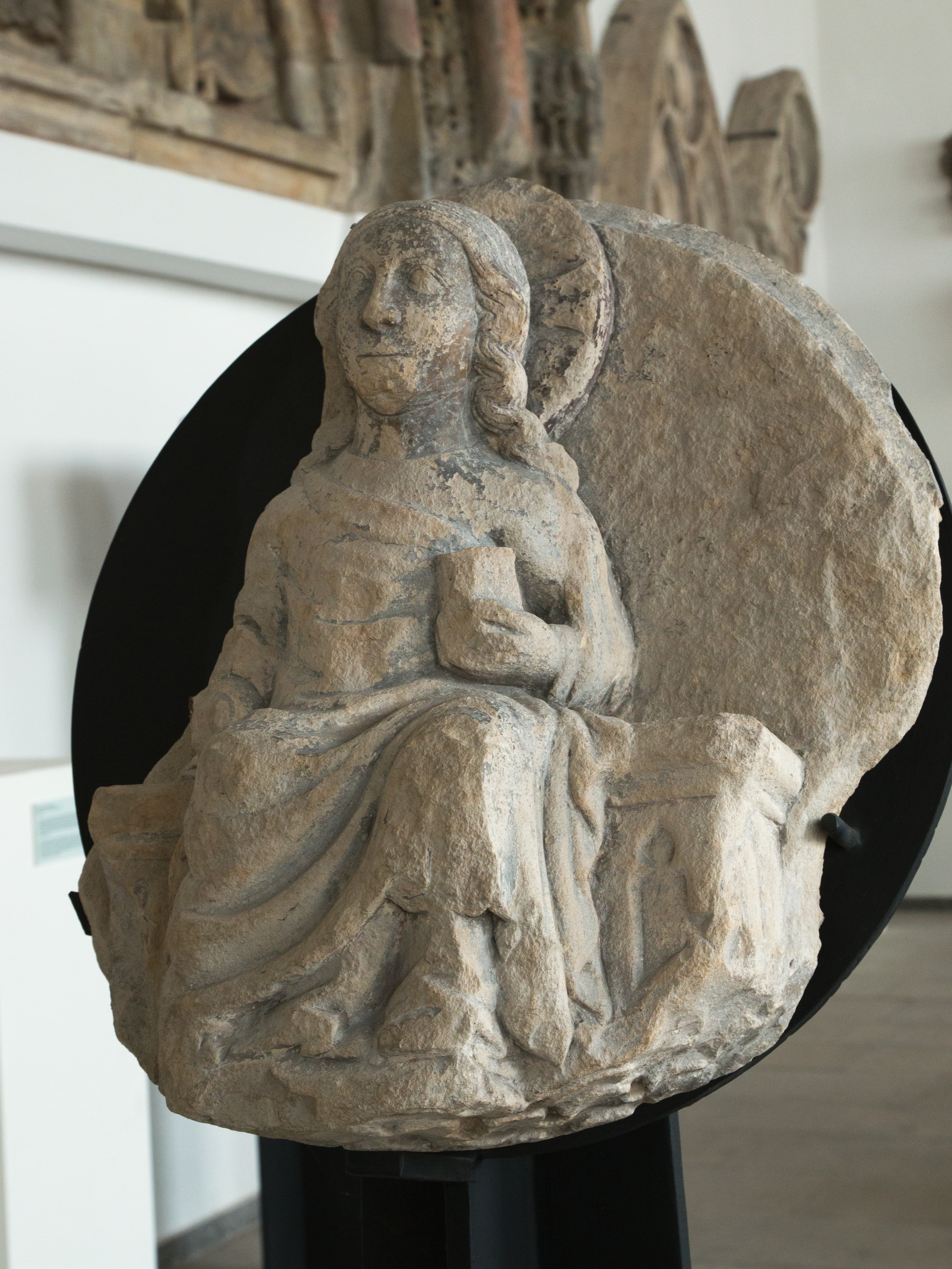 The cover plate of the vault with relief of the Christ Judge (Beau Dieu type) from the demolished church of St. Valentin in the Old Town of Prague. The last third of the 13th century. Sandstone. Lapidarium of the National Museum in Prague, cat. no. 92.